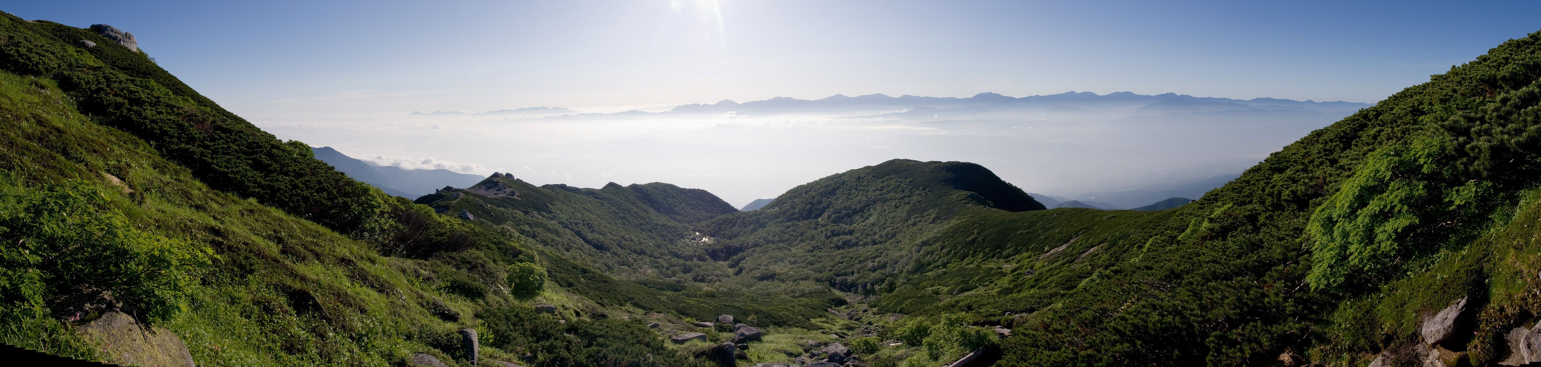 Utsugidaira-Cirque in Mts.Kiso, Nagano, Japan.